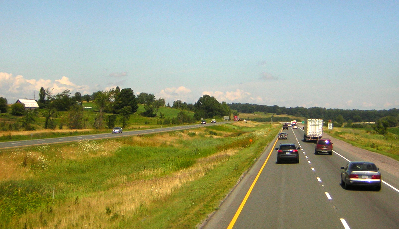 Four lane Highway 401 in eastern Ontario